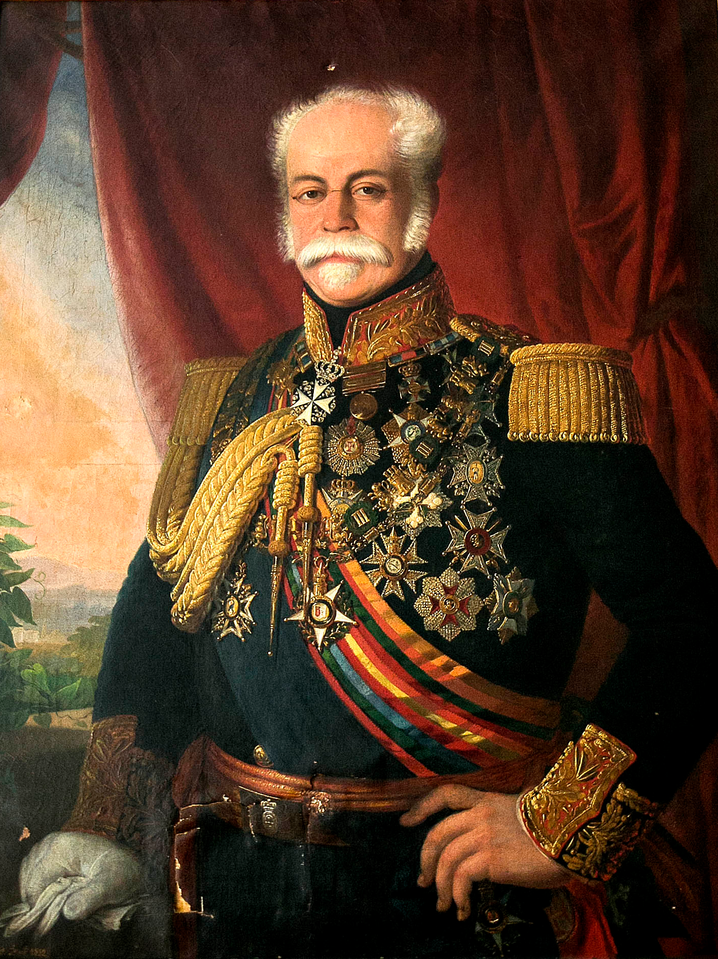 Retrato do Duque de Saldanha, pendurado no antigo escritório do Dr. Miguel Bombarda, no Hospital Miguel Bombarda. O quadro tem marcas dos tiros que vitimaram o Dr. Miguel Bombarda a 3 de Outubro de 1910, em vésperas da Revolução Repúblicana que depôs a Monarquia Portuguesa.